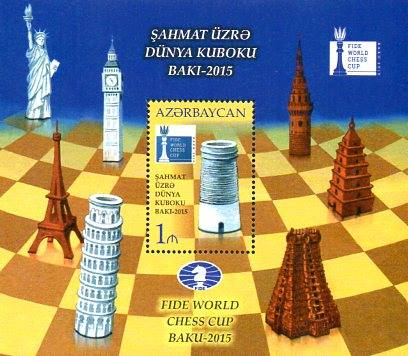 N 1225 - 1 manat - World chess cup. Baku 2015.